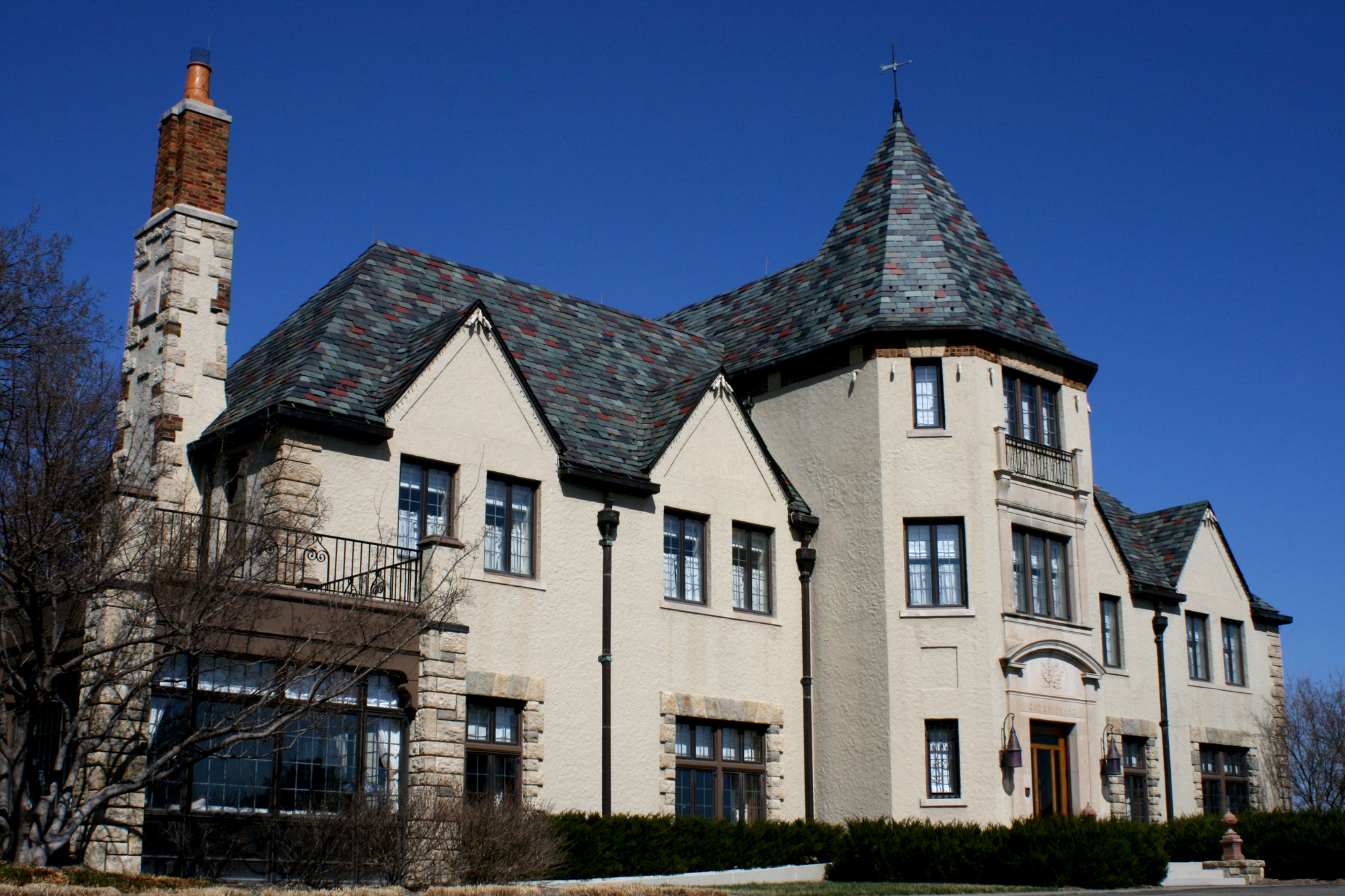 Cedar Crest, the official residence of the Governor of Kansas, was built in 1928 for Frank P. MacLennan and left to the state of Kansas in 1955. It is located in Topeka, Kansas south of the Kansas River.